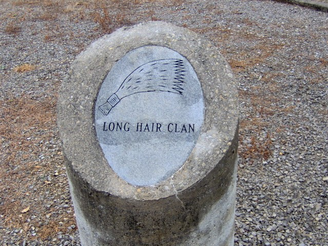 The Long Hair Clan pillar at the Chota Monument in Monroe County, Tennessee, in the southeastern United States. This pillar is one of eight pillars representing the seven Cherokee clans and the Cherokee Nation. The monument rests directly above Chota's ancient townhouse.